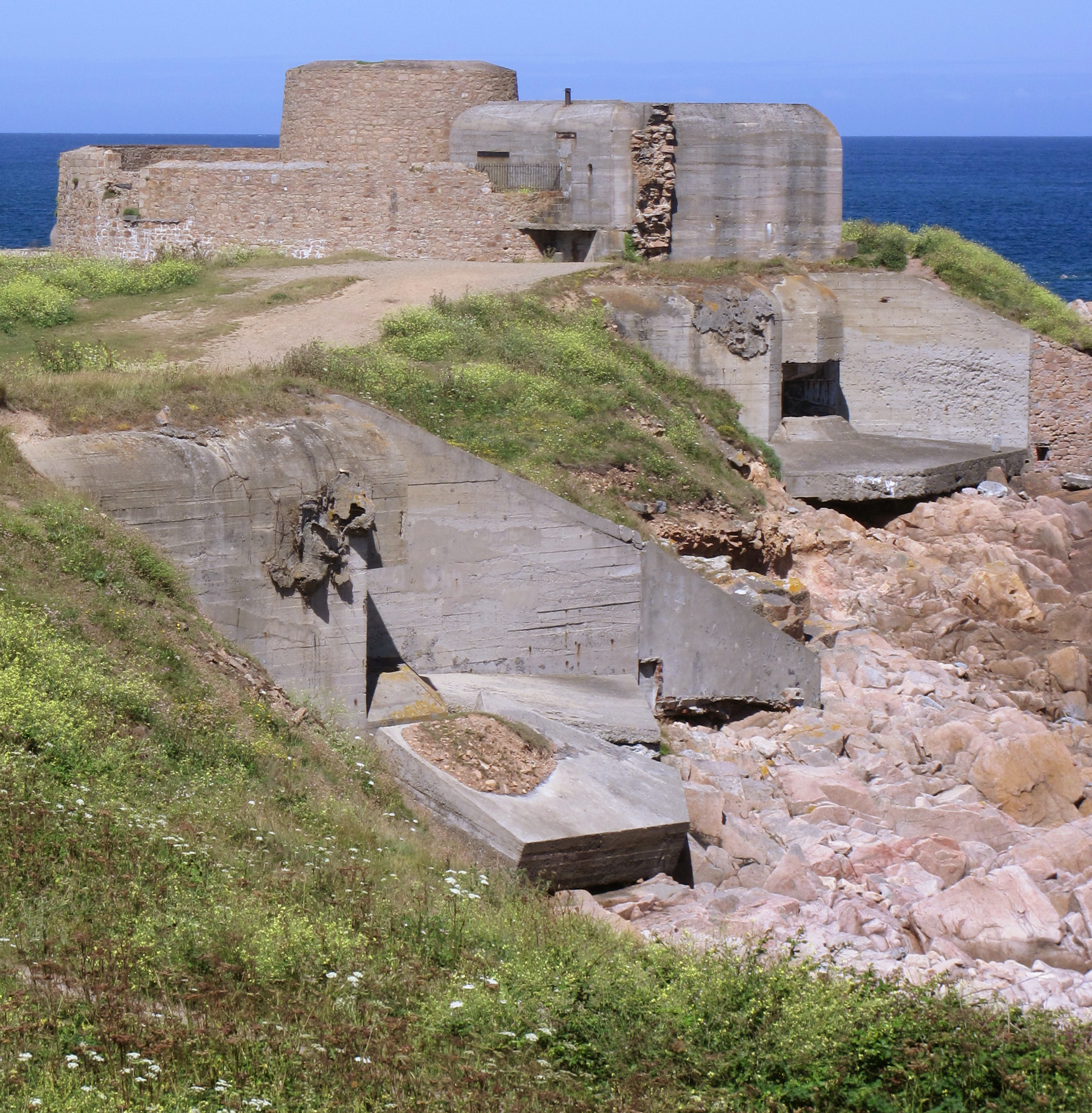 In Guernsey, 4 July 2010